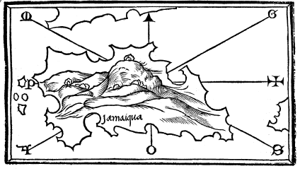 Map of Jamaica, included in a book by Benedetto Bordone published in Venice in 1528.